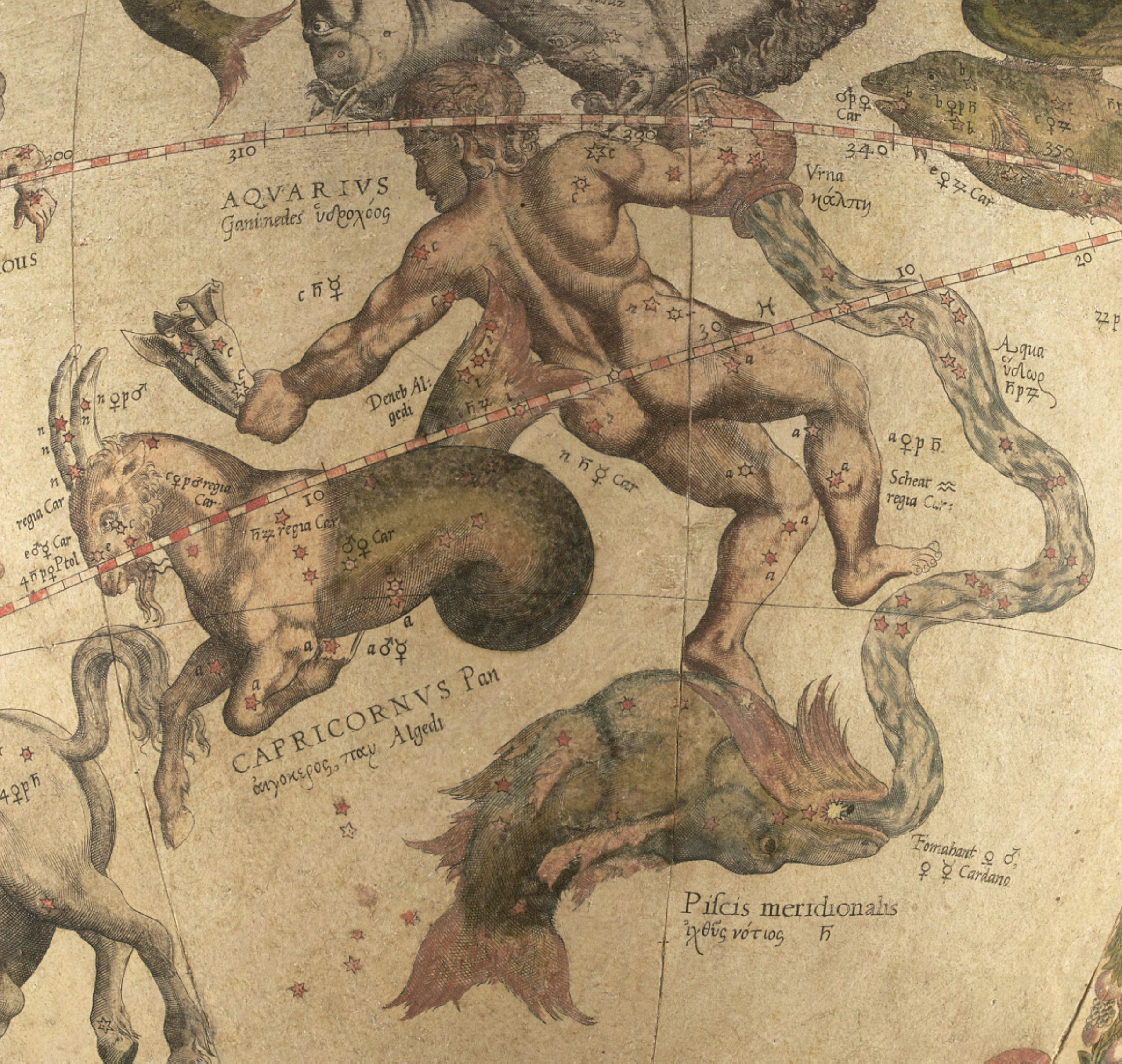 Aquarius (portraied as "Ganymedes udrochòos") and Capricornus constellations from the Mercator celestial globe.